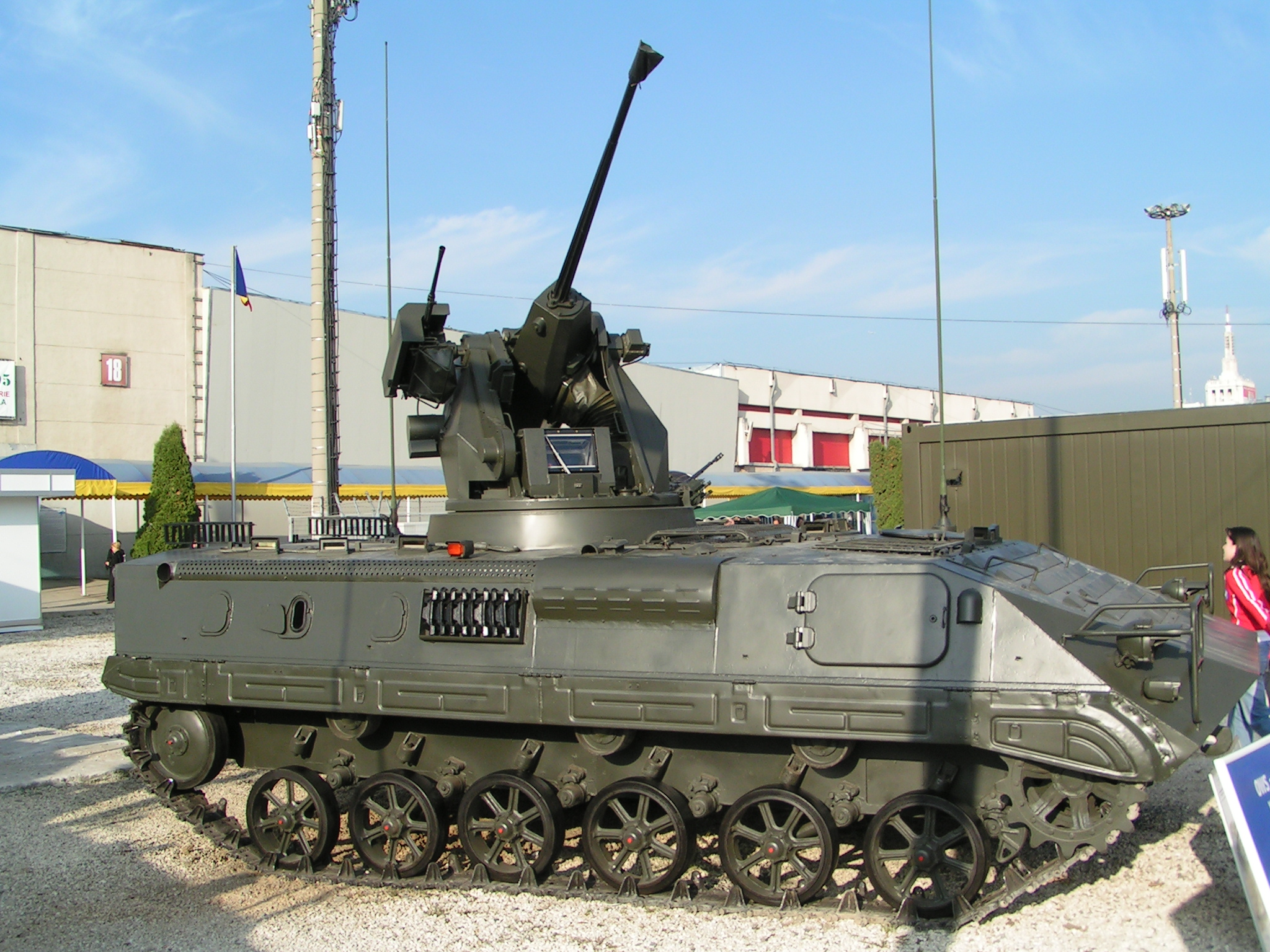 MLVM (Masina de lupta a vanatorilor de munte) mountain combat vehicle fitted with a Rafael OWS-25R overhead weapon station, Expomil 2005.